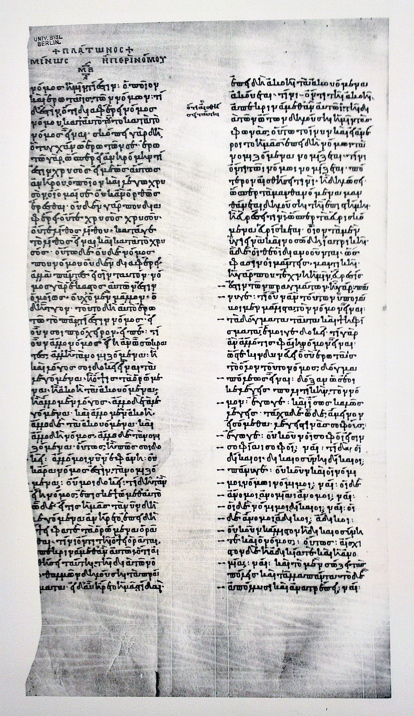 Page of the Codex Parisinus graecus 1807. Dialogue Minos.